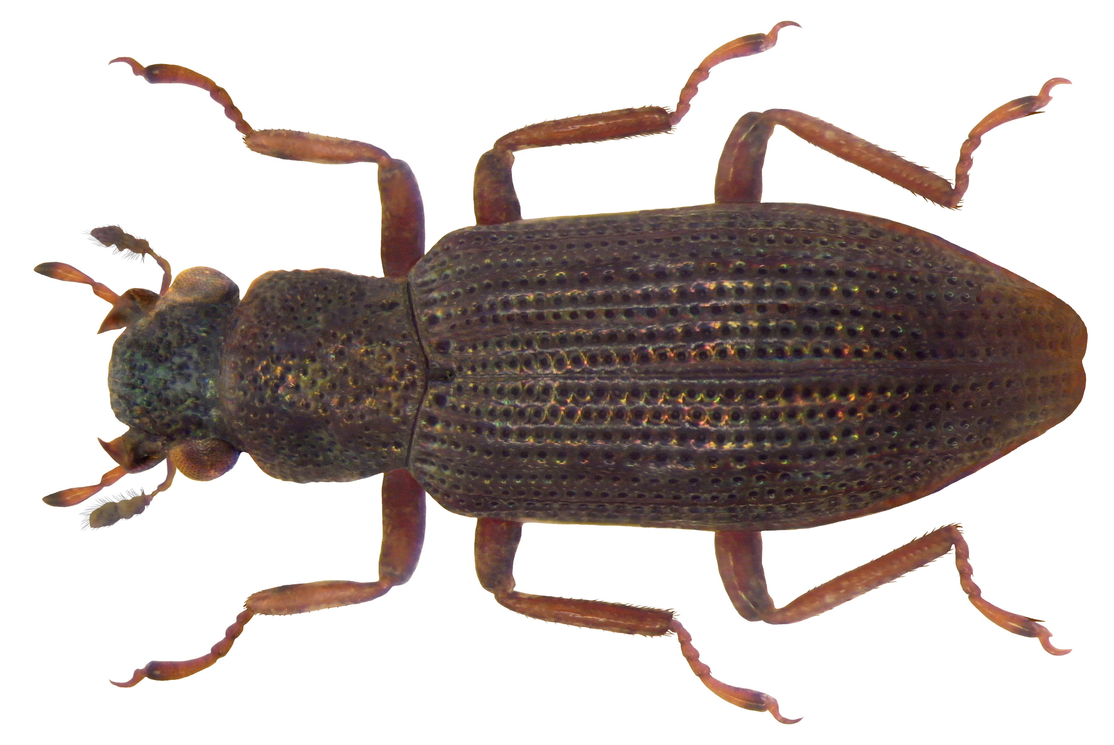 Dorsal view of an adult Hydrochus angustatus. Familie: Hydrochidae Groesse: 2,0-3,4 mm Verbreitung: Europa Ökologie: vorzugsweise in stehenden Gewässern Fundort: Belgien, Lommel leg.det. A.Skale, 1999 Photo: U.Schmidt, 2010